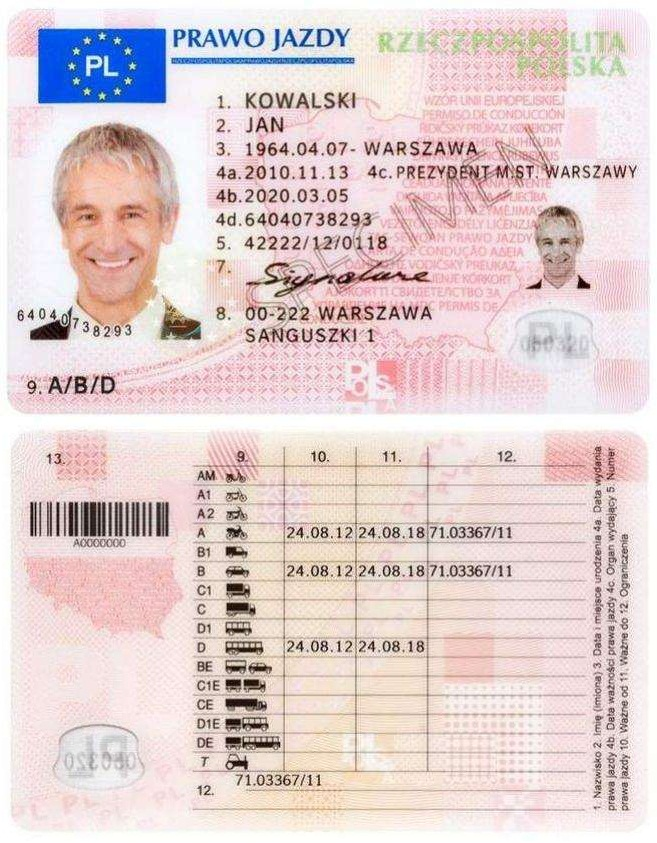 Specimen of new polish driving license prepared by Ministry of Transport containing new categories according to the Vehicle Drivers Act